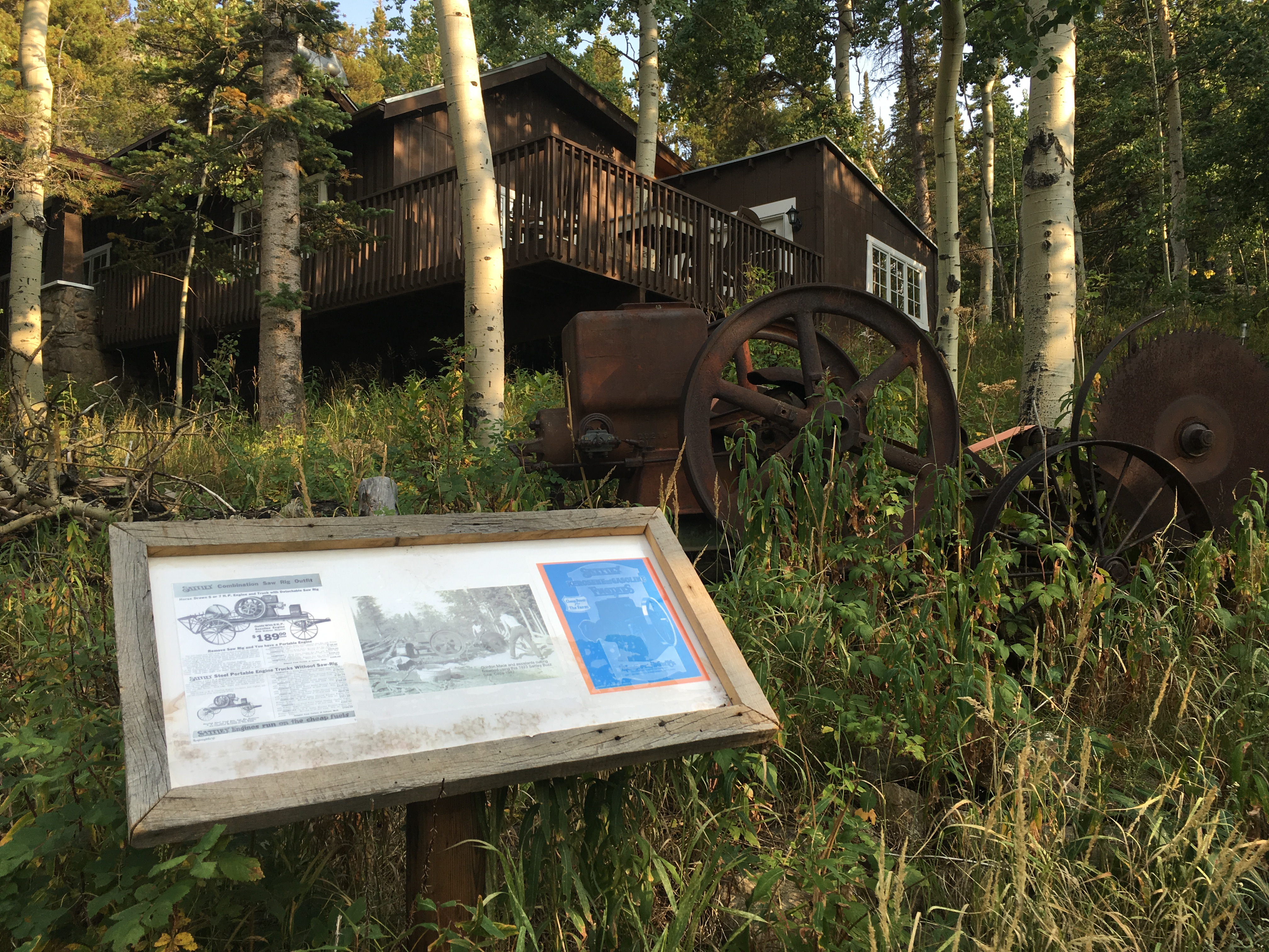 Explanatory panel and the saw mill used by the Maces to cut logs on the Baldpate property